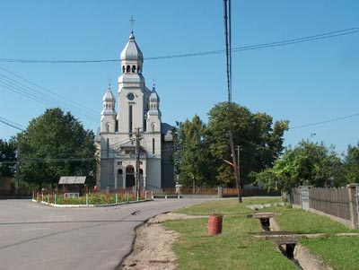 Catedrala Ortodoxa Ardusat near Baia Mare / Maramureş County / / Romania.